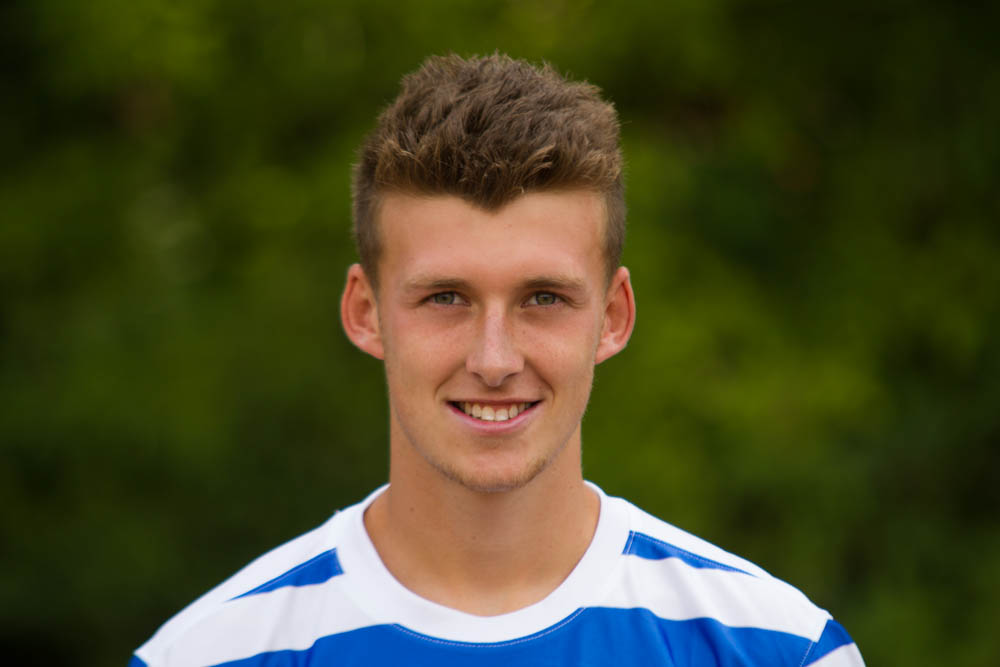 German football player Julien Rybacki, MSV Duisburg